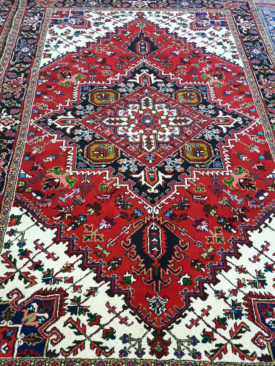 Mehraban carpet5